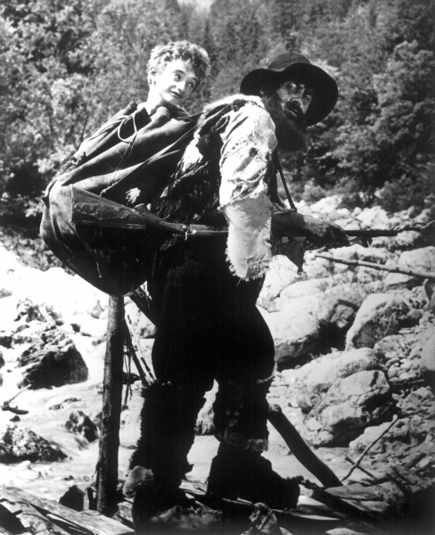 Rožle in Bedanec